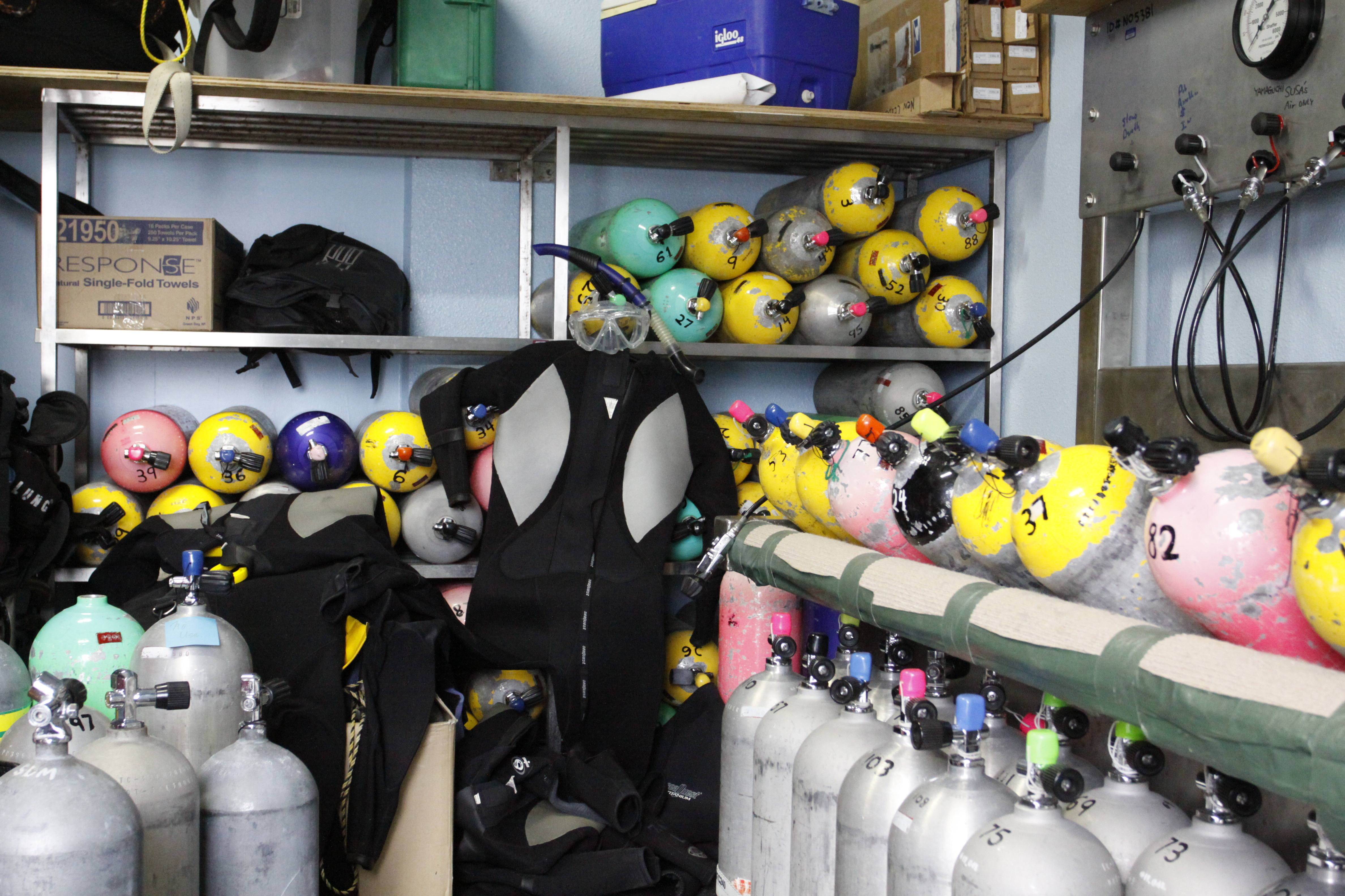 The Professional Association of Diving Instructors offers a basic open water course at the Shark Bait Dive Center April through October. The Shark Bait Dive Center provides gear rental including wet suits, masks, fins, snorkel, weight belts, scuba tanks, dive computers and various other types of scuba diving equipment to certified divers to use.